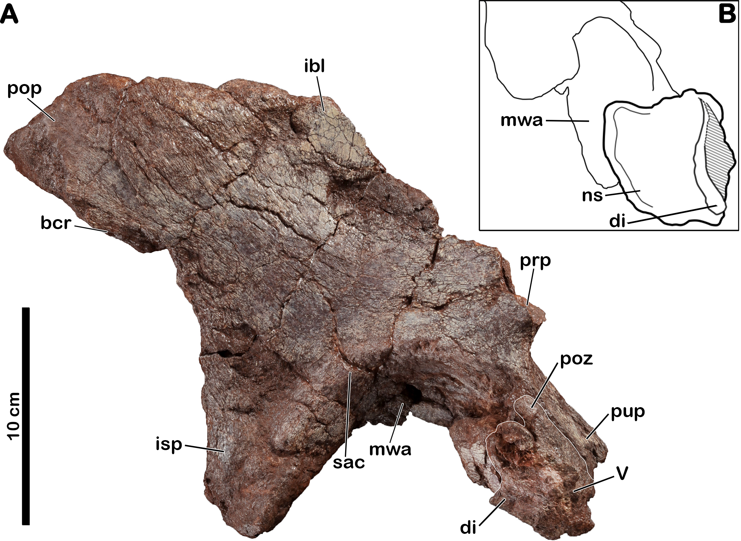 Right ilium of Meroktenos, MNHN.F.LES16a. (A) Lateral view. (B) Interpretative drawing of a close-up of the acetabulum in ventral view, showing the neural arch of the vertebra. bcr, brevis crest; di, diapophysis; ibl, iliac blade; isp, ischial peduncle; mwa, medial wall of the acetabulum; ns, neural spine; prp, preacetabular process; pop, postacetabular process; poz, postzygapophysis; pup, pubic peduncle; sac, supracetabular crest; V, vertebra. (Photo credit: L Cazes.)